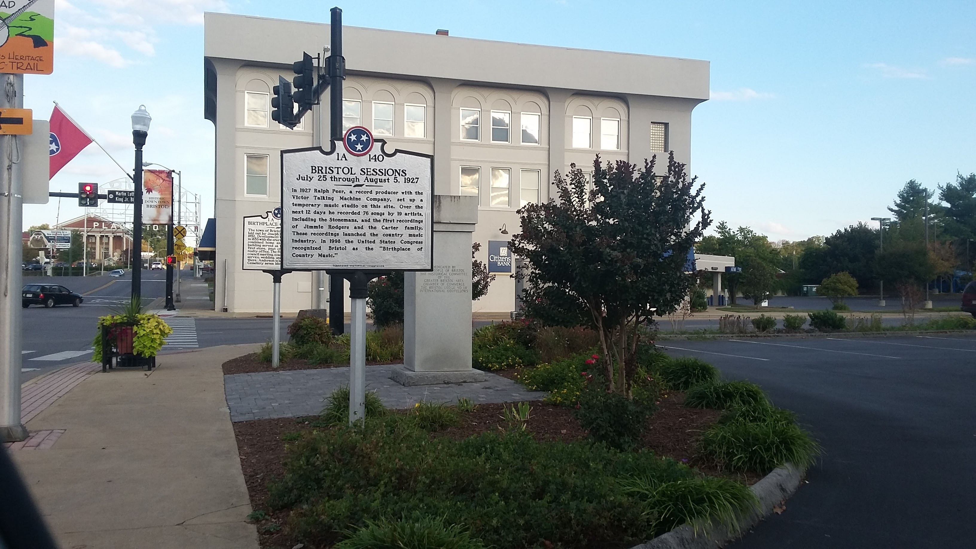 Site of Bristol Sessions Recordings in Bristol, Tennessee where the Carter Family and Jimmie Rogers were recorded in 1927. Formerly the site of warehouse where the songs were recorded. Now a parking lot.